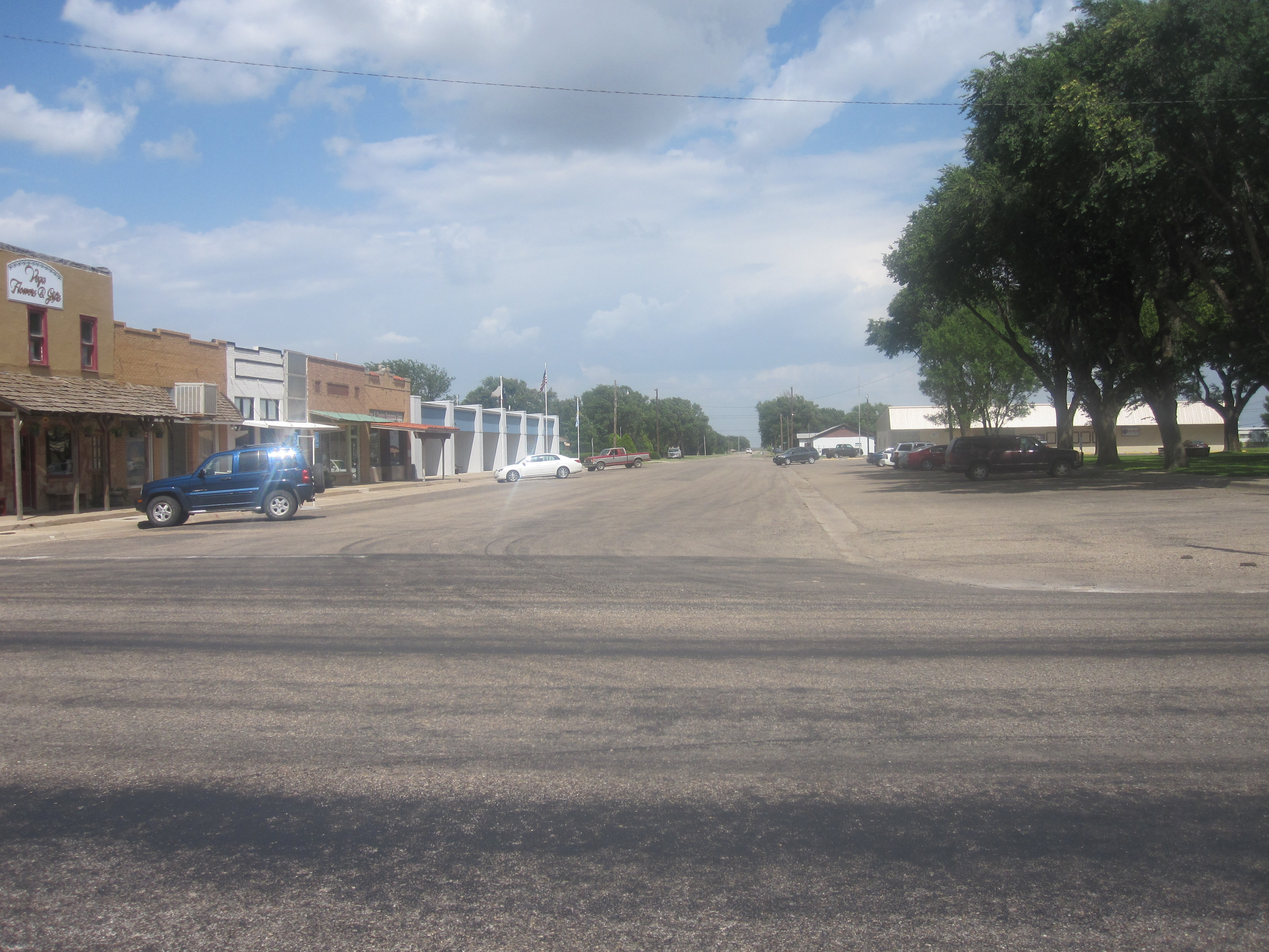 I took photo with Canon camera in Vega, TX.